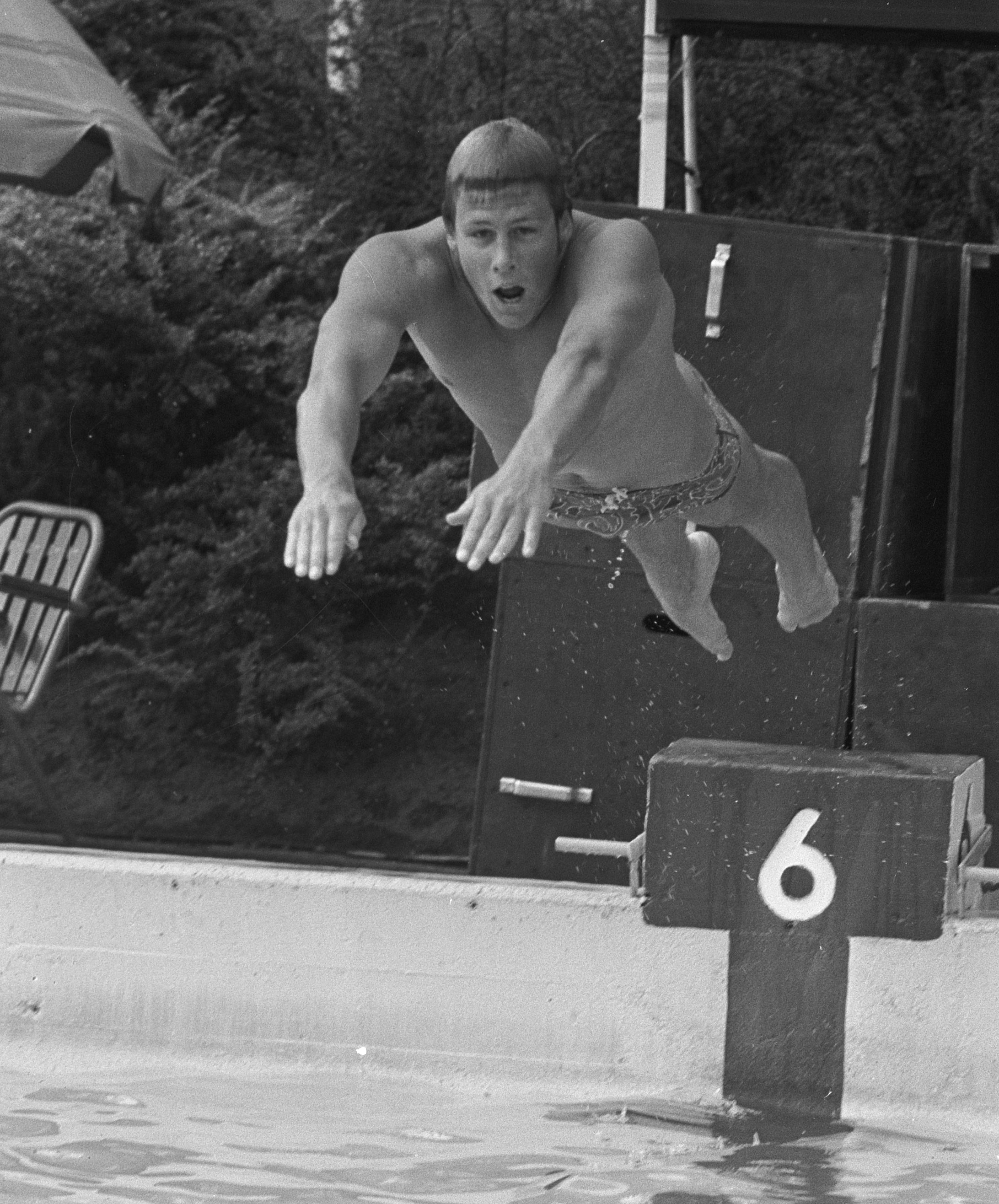 Roger van Hamburg